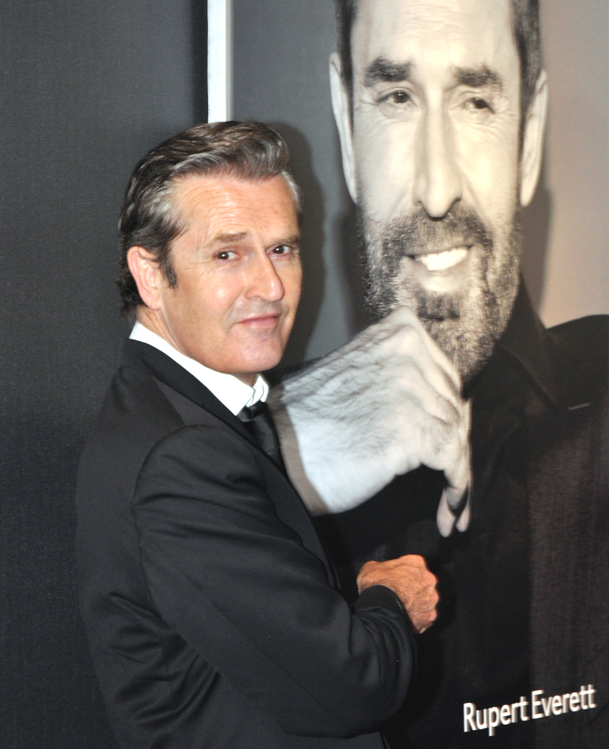 Rupert Everett at Munich Filmfestival 2015